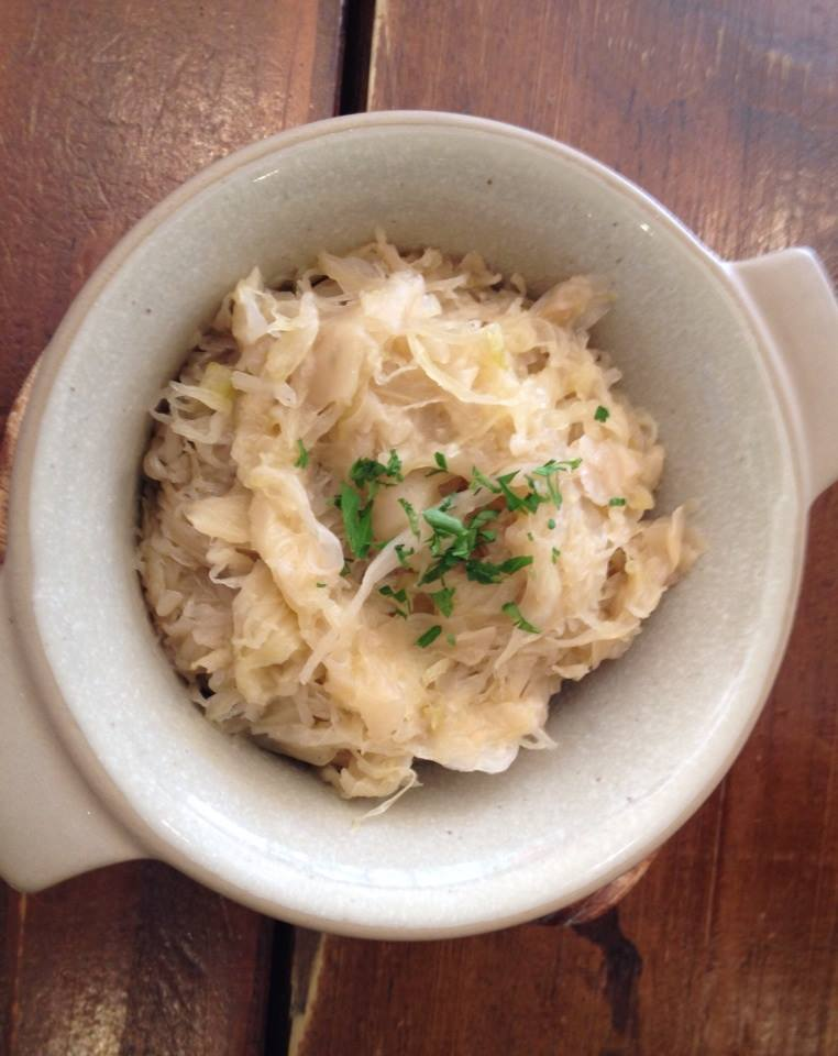 Sauerkraut.